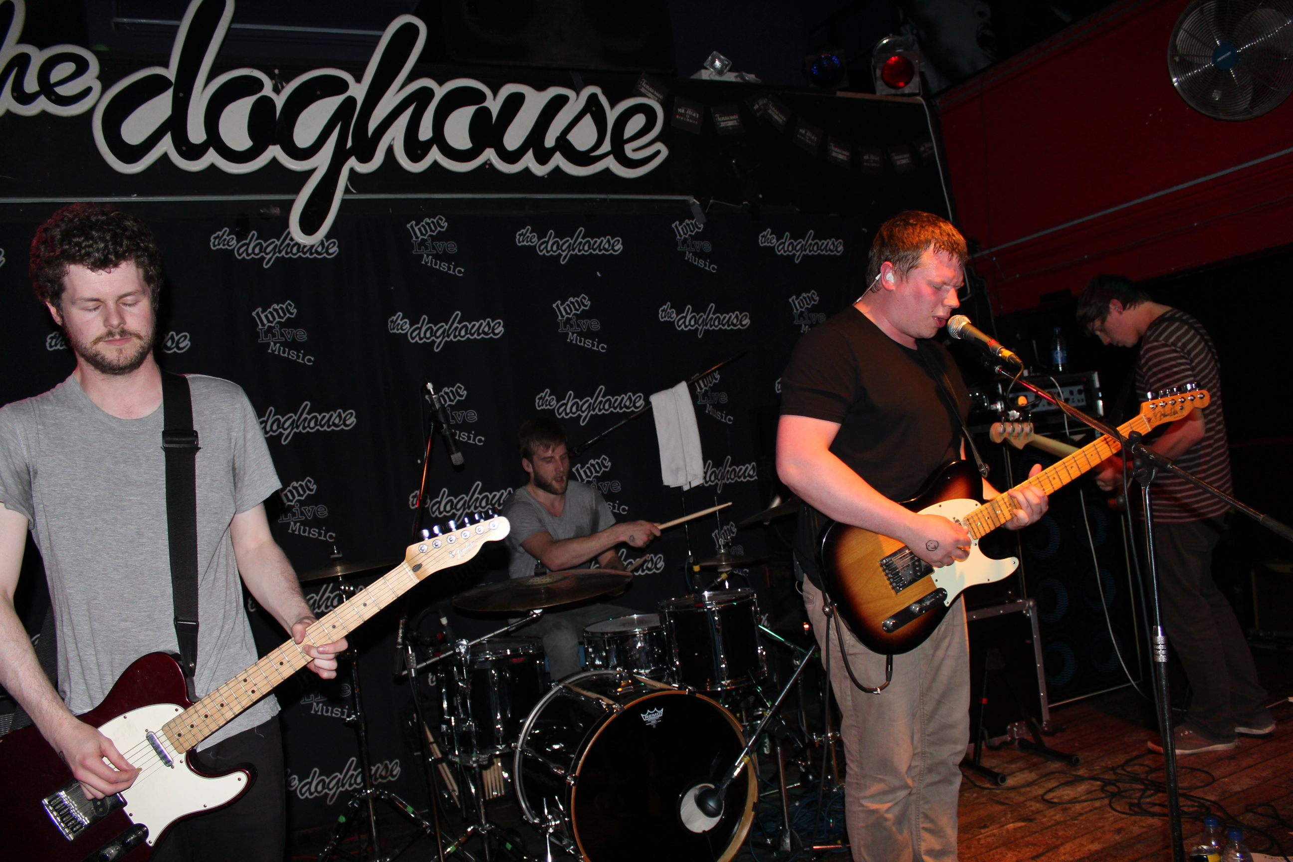 We Were Promised Jetpacks performing live at The Doghouse in Dundee, 23/5/2012.